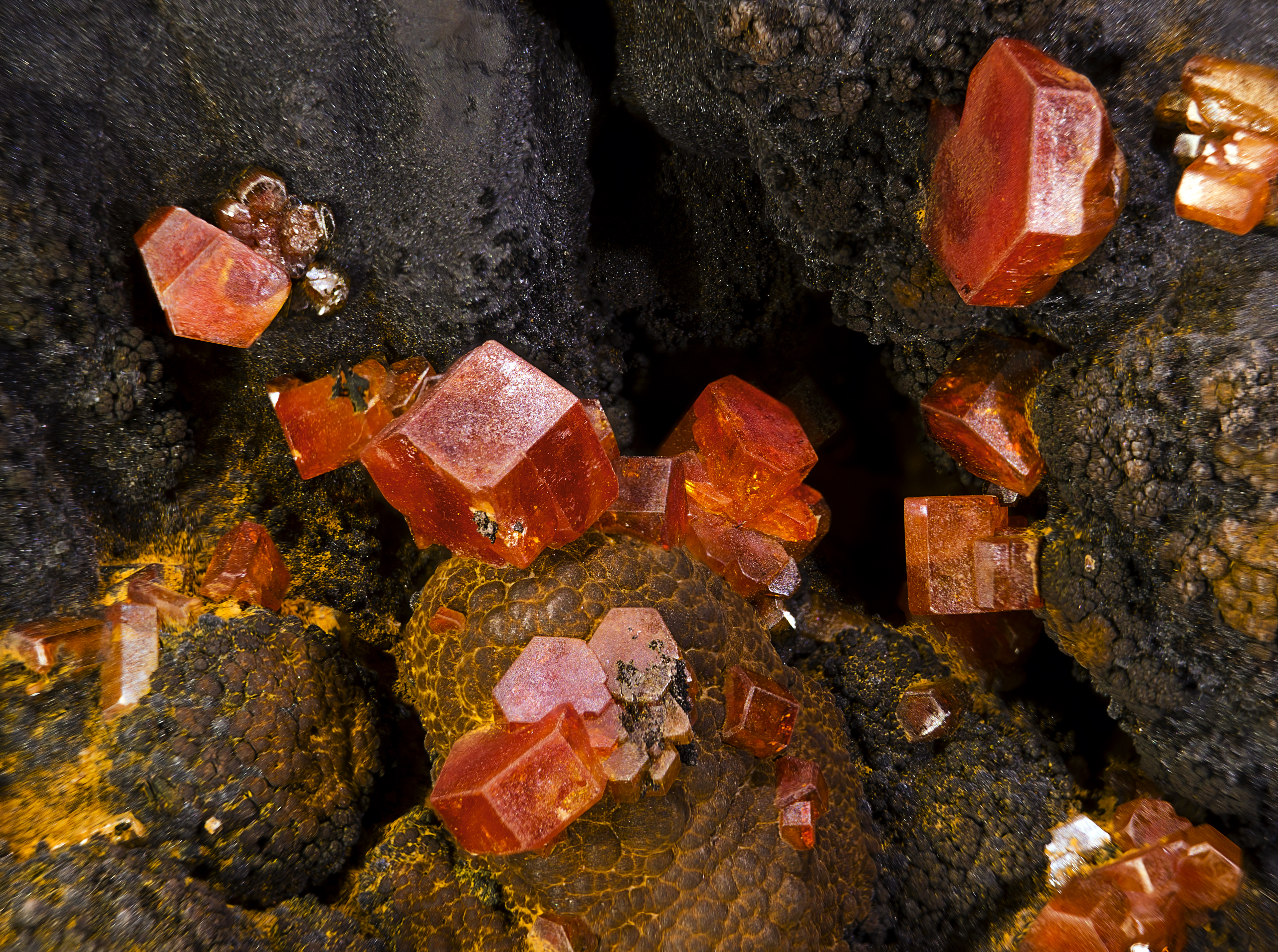 Vanadinite on pyrolusite Locality: Taouz, Er Rachidia Province, Meknès-Tafilalet Region, Morocco Size of view : 5 cm.